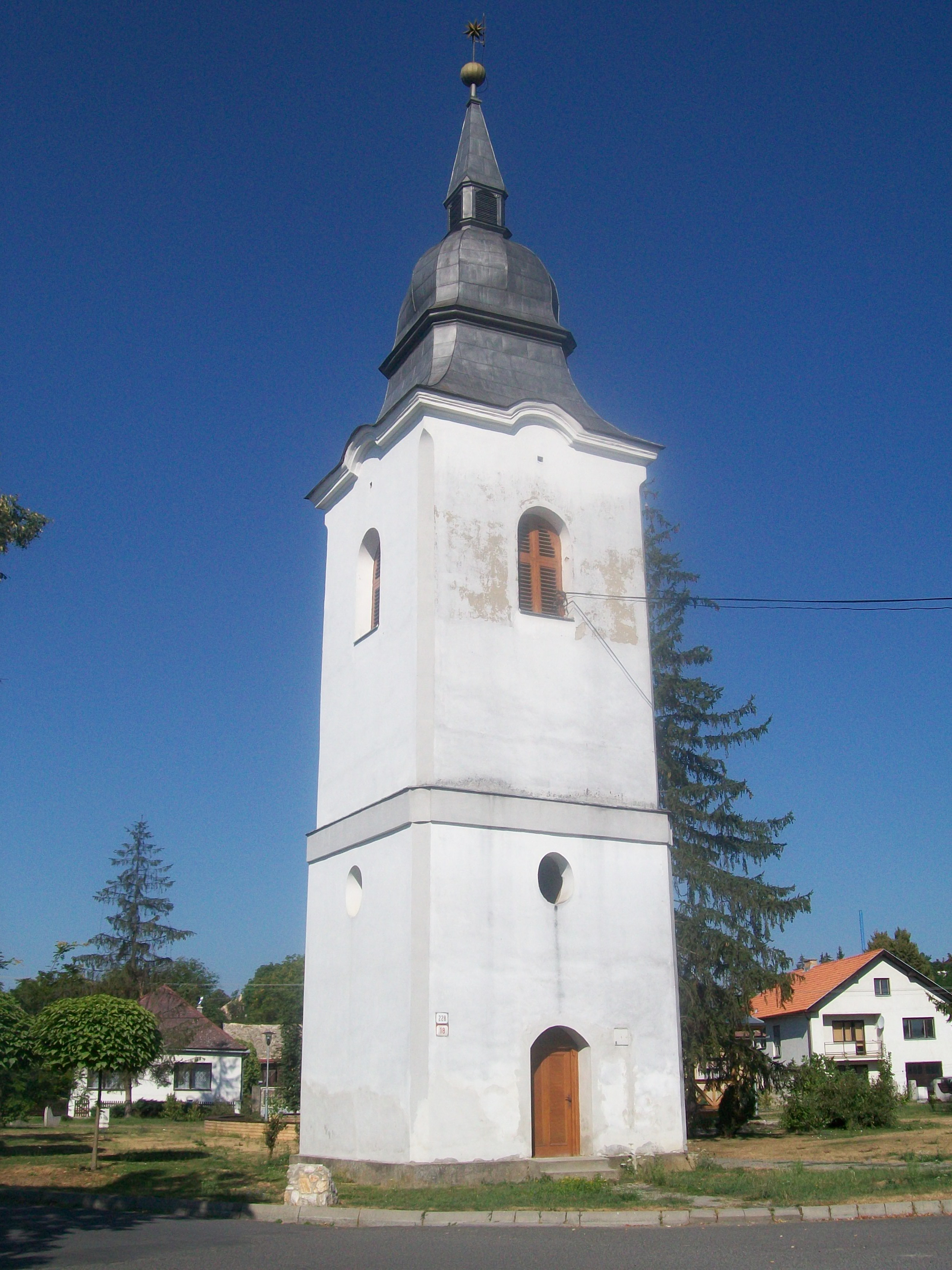 Belfry in the village Kalinovo